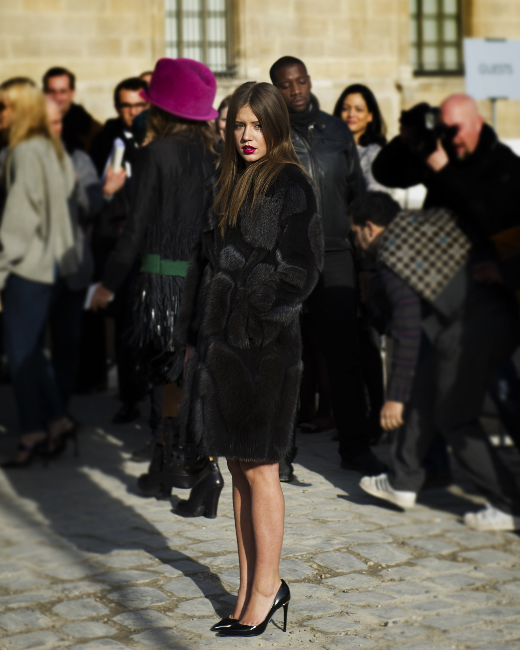 Louis Vuitton autumn/winter 2014 fashion show, Paris, France.